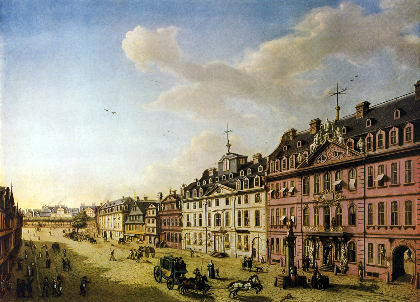 Frankfurt on the Main: Nordseite der westlichen Zeil vom Roten Haus bis zum Weidenhof (Northern side of the Zeil from the Red House to the Weidenhof)